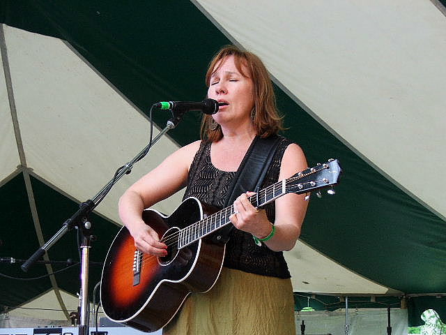 Iris Dement performing at Old Settler's Music Festival in Driftwood, Texas (2007). Photo by Ron Baker.